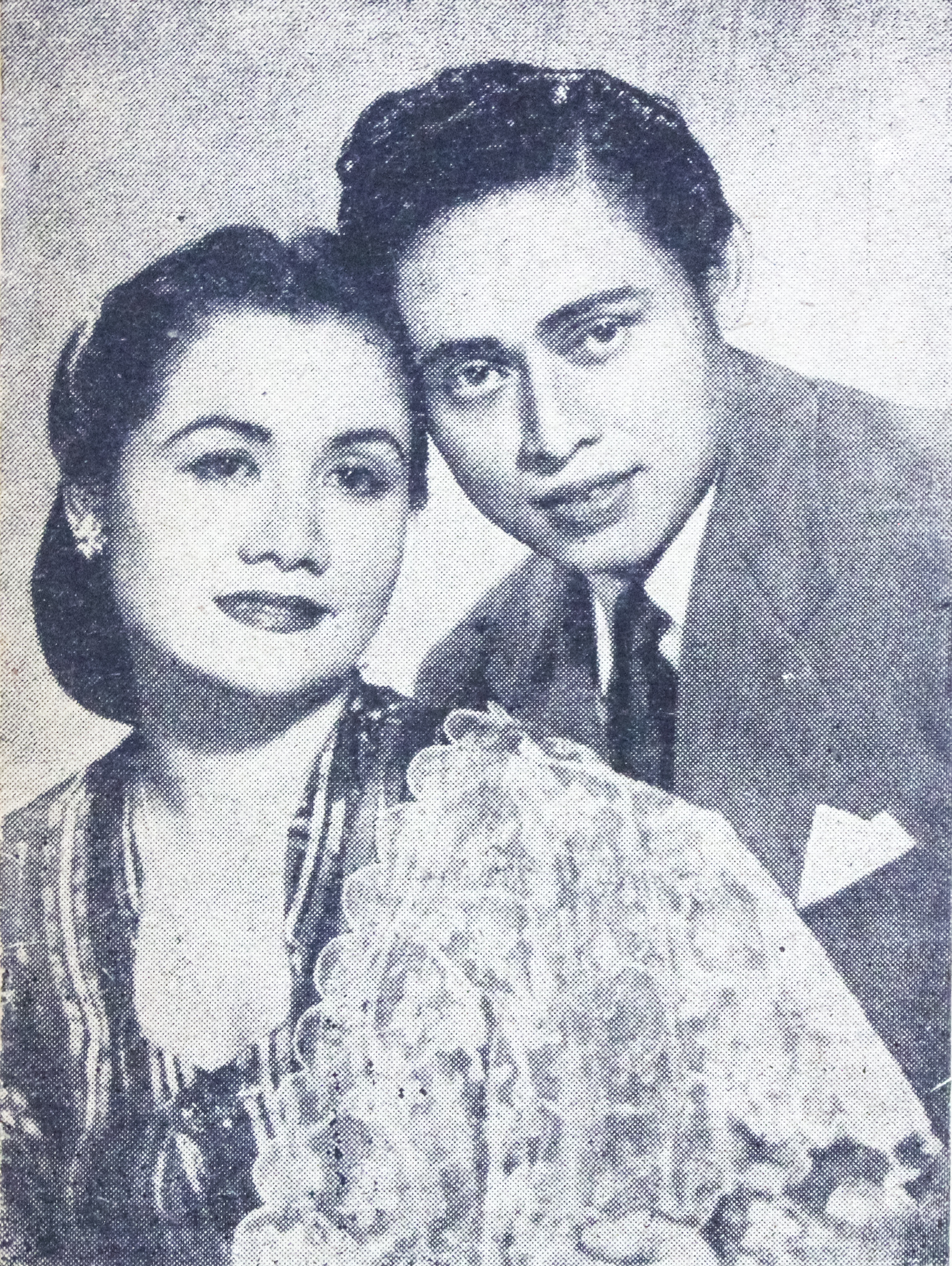 Rd Mochtar and his wife Sukarsih in a promotional still